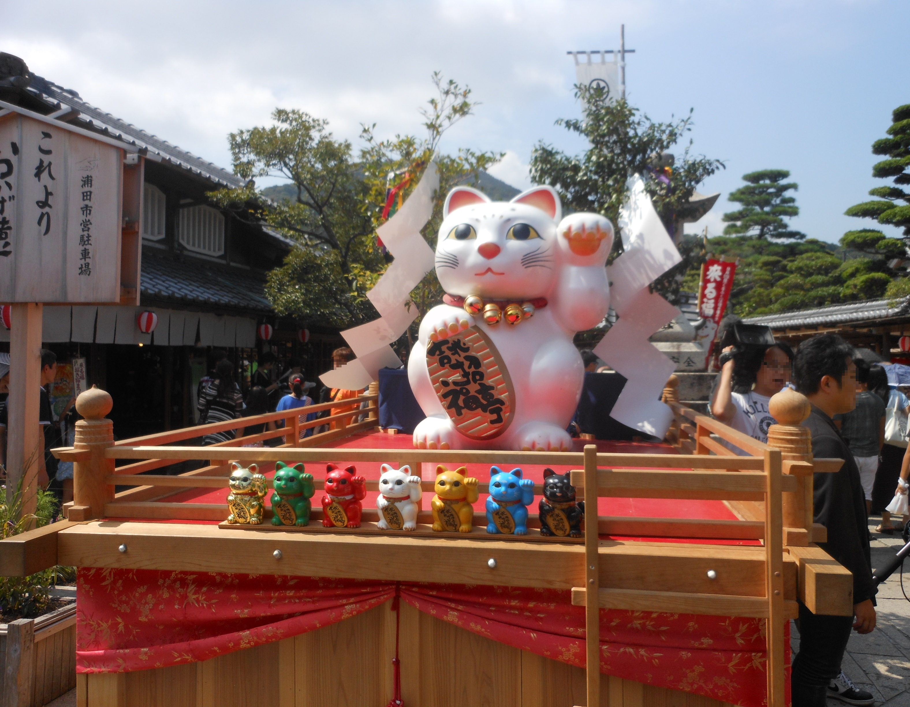 This is a scene of Kuru Fuku Maneki Neko Festival in Okage-yokocho, Ise, Mie, Japan.